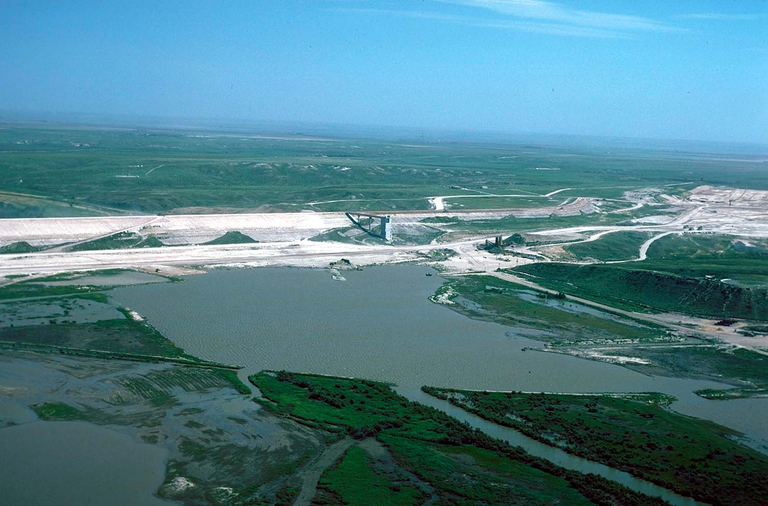 Optima Lake on the Beaver River in Texas County, Oklahoma, USA. The lake is located near Hardesty, Oklahoma. The lake has never been filled, nor reached any significant level, because of low water flow in the Beaver River and North Canadian River. View is from behind the dam to the southeast. Coordinates: 36°39′57.39″N 101°8′12.44″W / 36.6659417°N 101.1367889°W